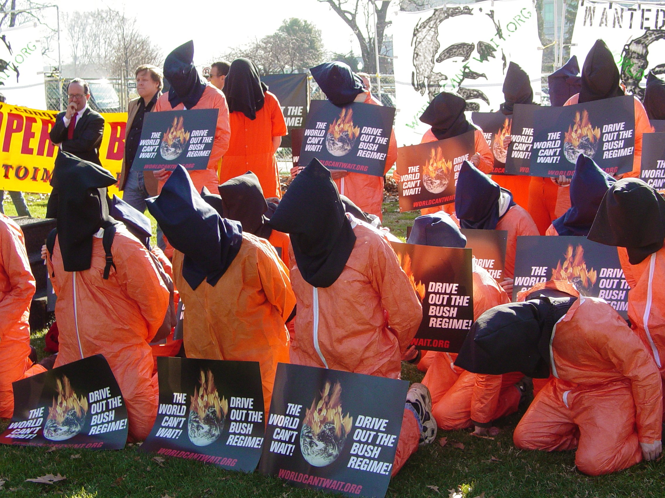 Participants in a rally sponsored by The World Can't Wait are dressed as hooded detainees and holding WCW signs in Upper Senate Park on January 4, 2007. Photo by Ben Schumin.